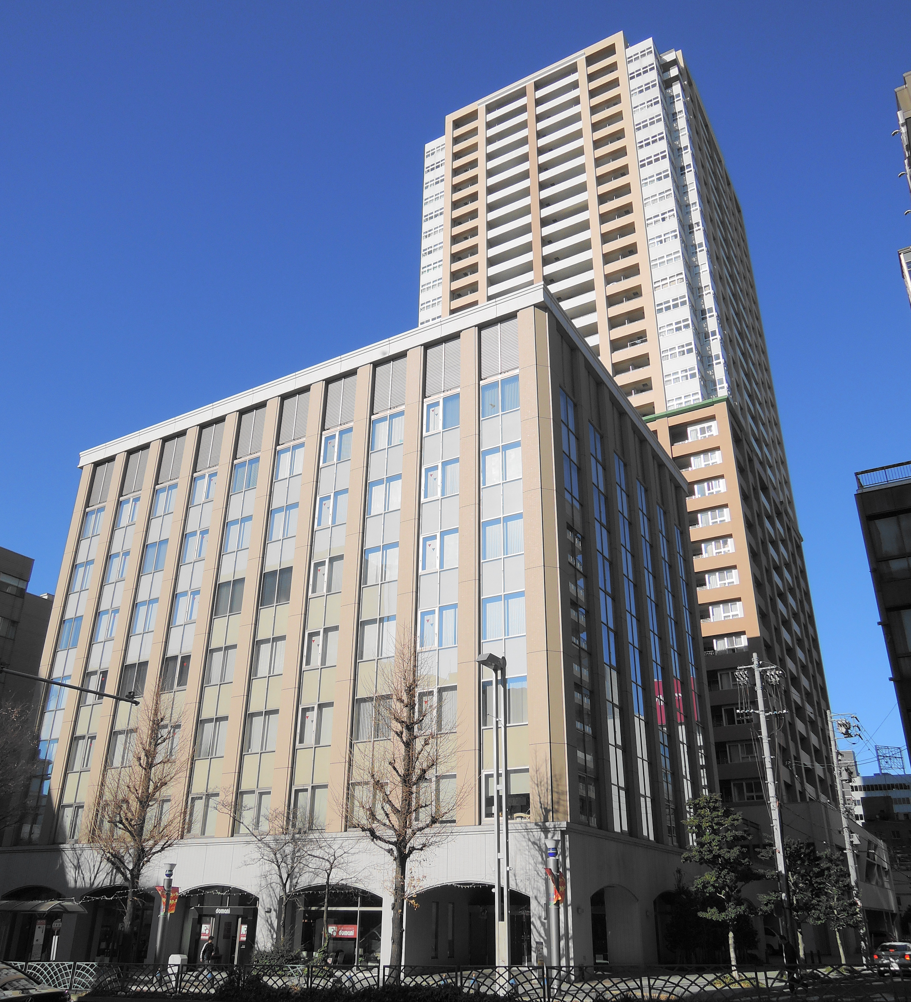 Aqua town Nayabashi,Aichi prefecture,Japan